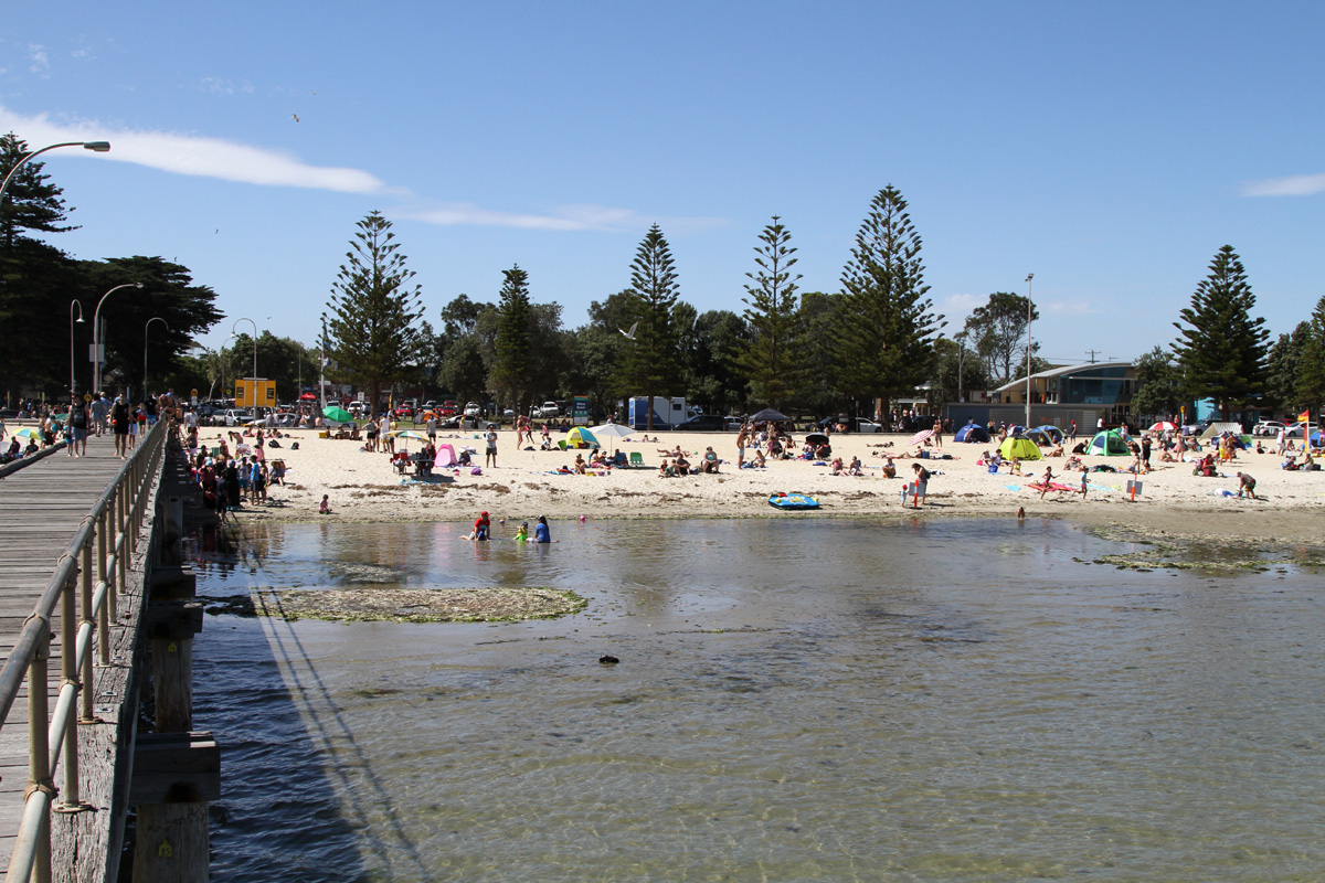 Looking north from the pier to the east side of Altona Beach on a warm (31°) summer's Sunday afternoon, Altona, Victoria, Australia.